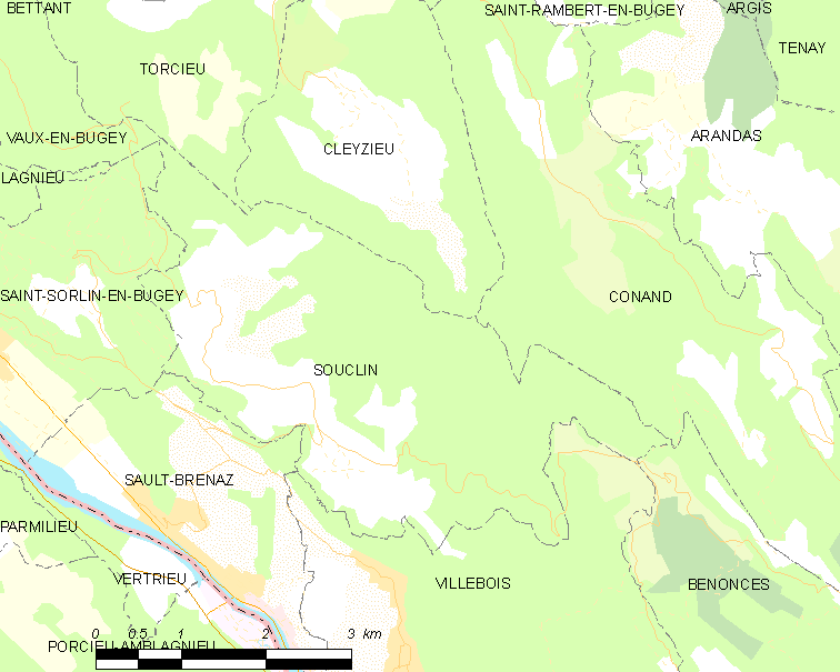 Map of French commune: Souclin Map commune FR insee code 01411.png